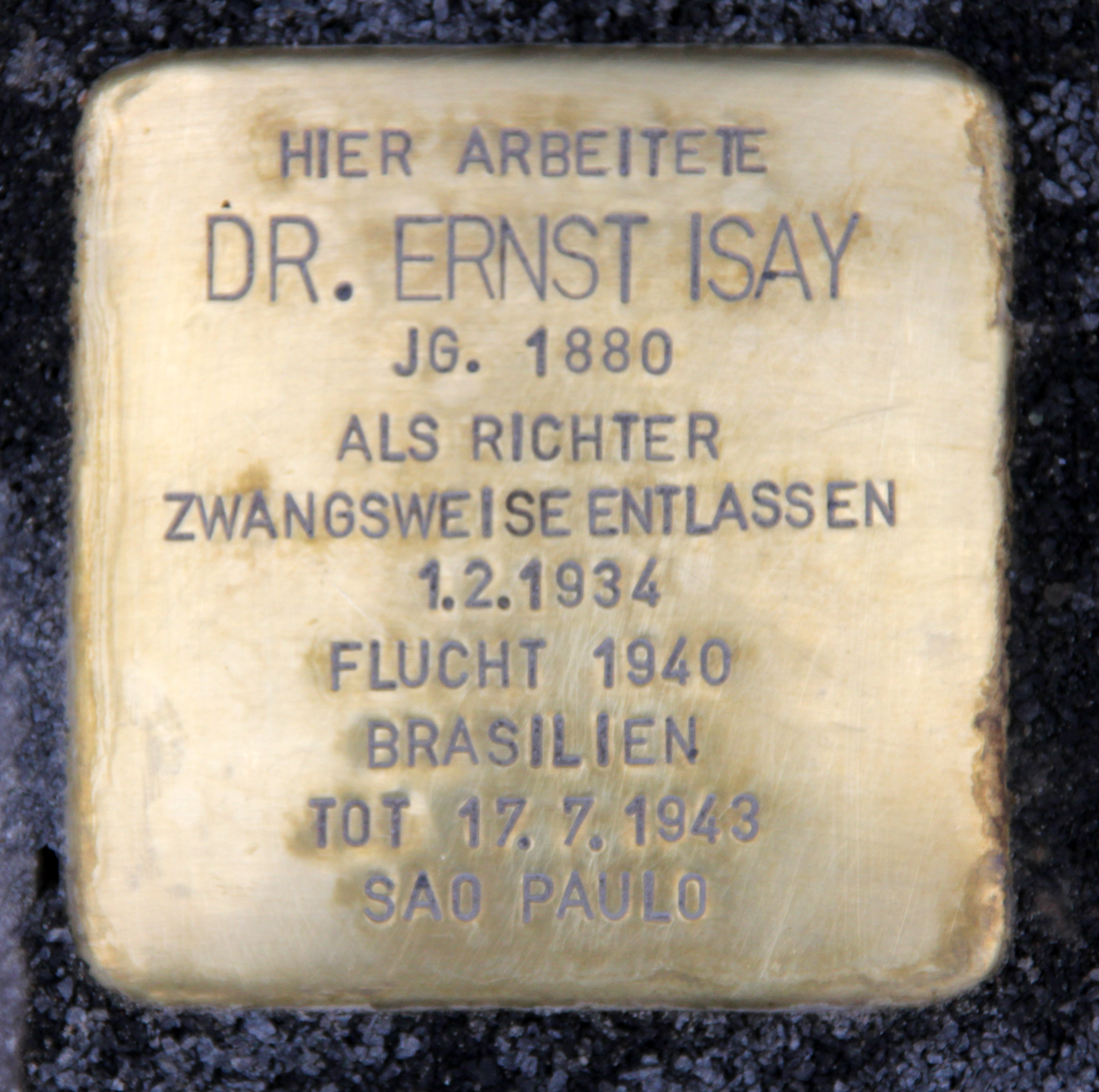 "Stolperstein" (stumbling block), Ernst Isay, Hardenbergstraße 31, Berlin-Charlottenburg, Germany